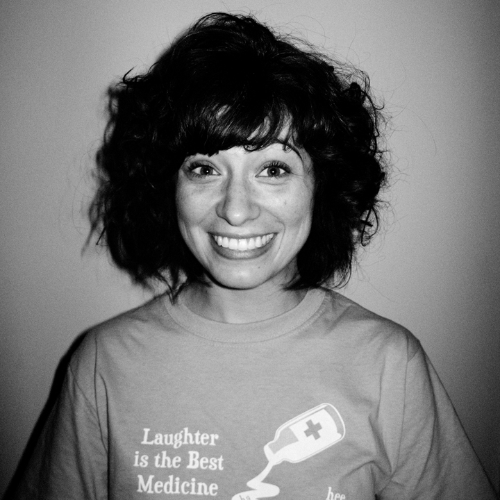 Melissa Villaseñor portrait as member of Sad People Talking, a weekly comedy show in Los Angeles